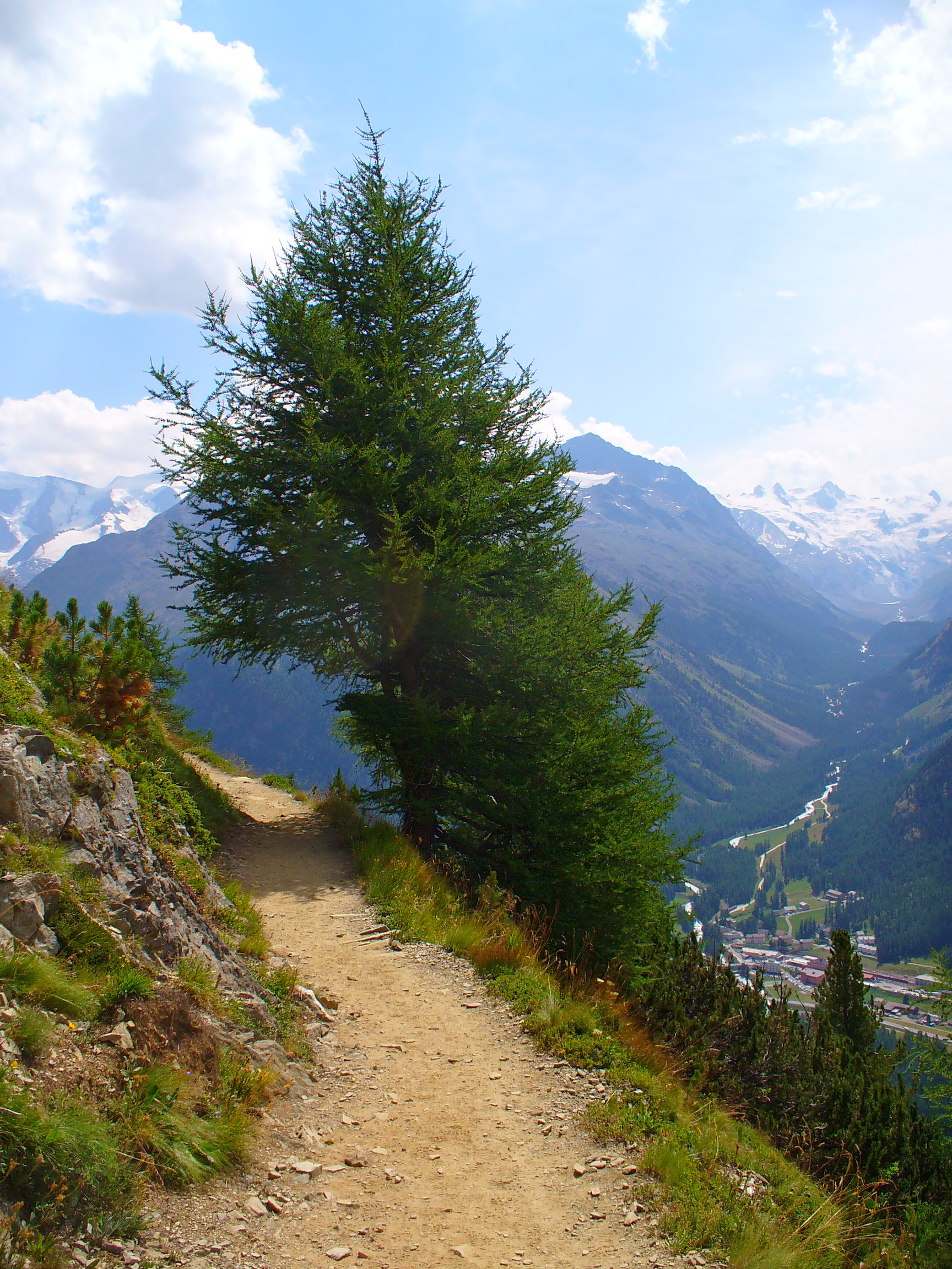 Larix decidua, Pinaceae, European Larch, habitus; Muottas Muragl, Engadin, Switzerland, altitude ca. 2400 m. The balm won through drilling of the tree is used in homeopathy as remedy: Terebinthina laricina (Tere-l.)